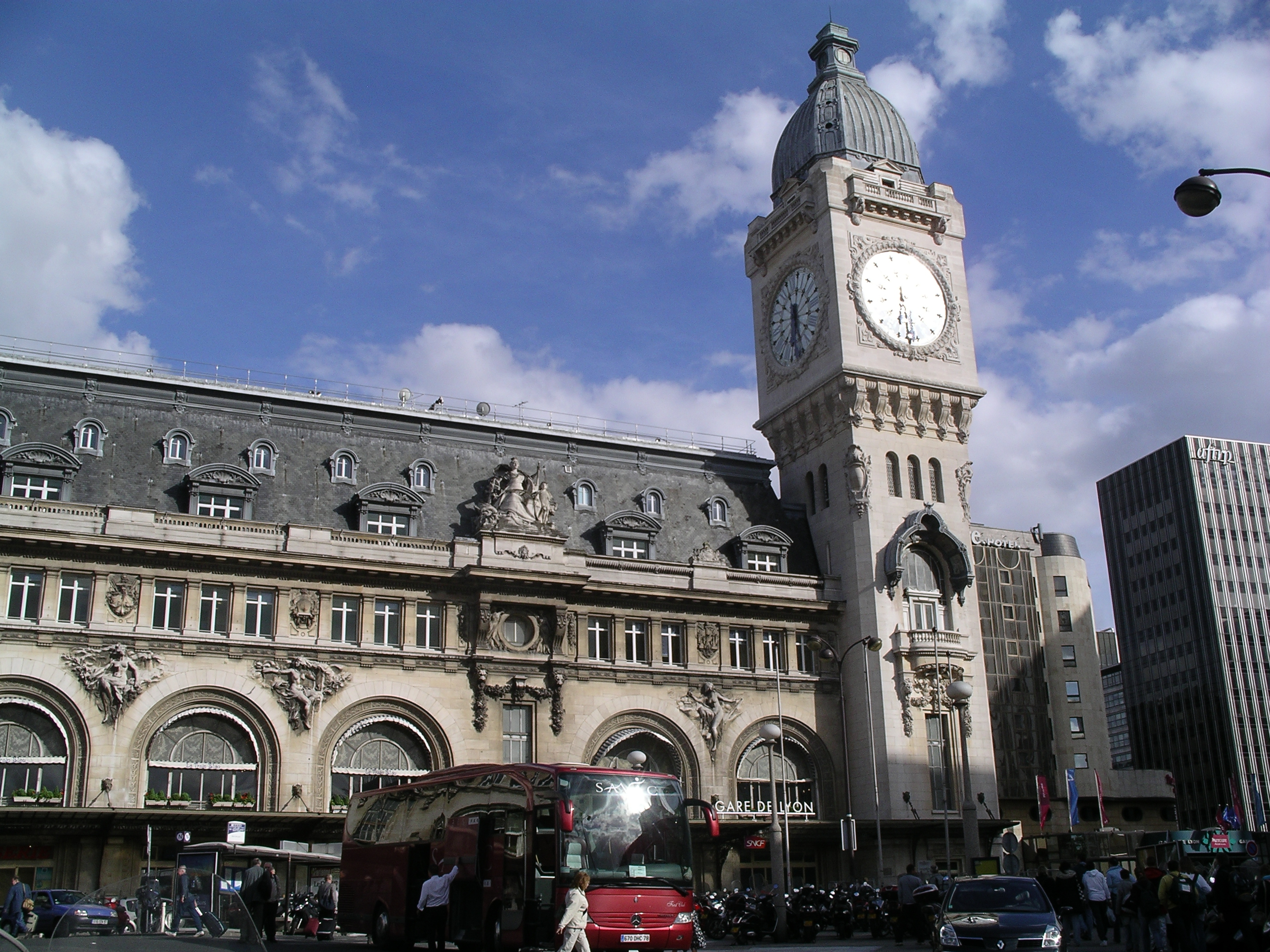 Railway station Gare de Lyon, Lyon, France